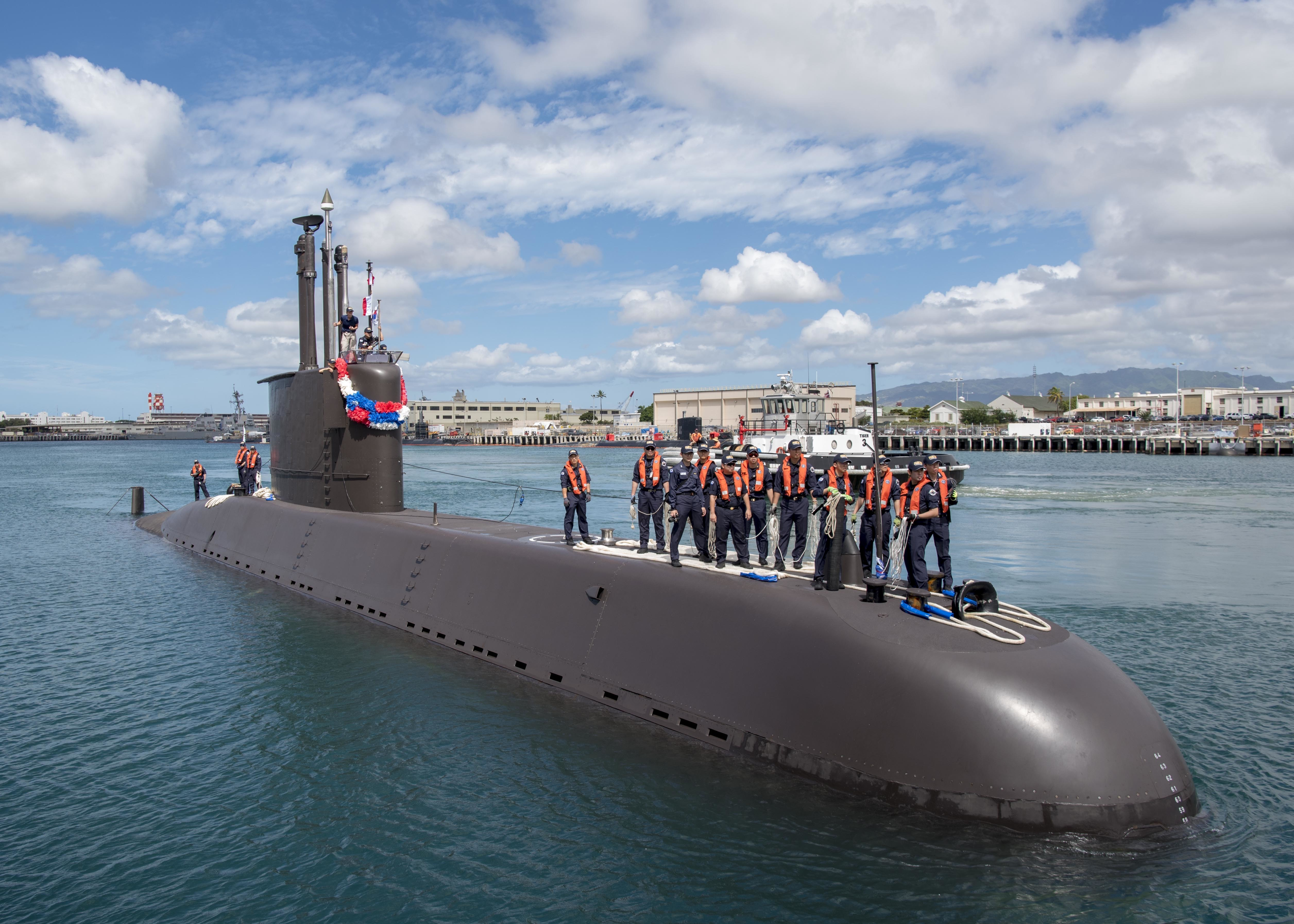 180601-N-KV911-0032 (PEARL HARBOR) Republic of Korea submarine ROKS Park Wi (SS 065) arrives at Joint Base Pearl Harbor-HIckam for routine training in the Hawaiian operations area and preparations for the Rim of the Pacific (RIMPAC) exercise 2018, June 1. Twenty-six nations, 47 ships, five submarines, about 200 aircraft, and 25,000 personnel will participate in RIMPAC from June 27 to Aug. 2 in and around the Hawaiian Islands and Southern California. The world's largest international maritime exercise, RIMPAC provides a unique training opportunity while fostering and sustaining cooperative relationships between participants critical to ensuring the safety of sea lanes and security on the world's oceans. RIMPAC 2018 is the 26th exercise in the series that began in 1971. (U.S. Navy photo by Mass Communication Specialist 2nd Class Shaun Griffin/released)